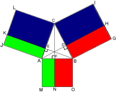 law of cosines